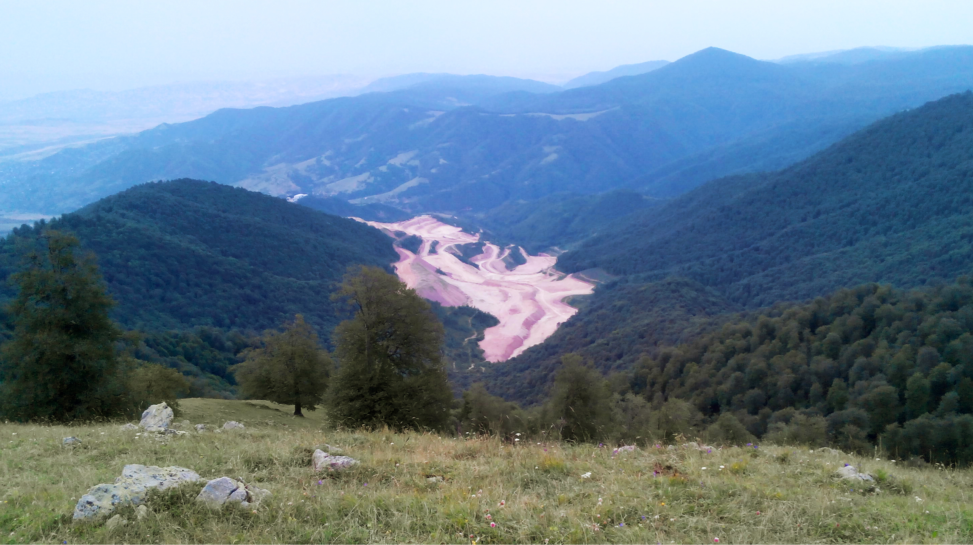 General view of the open-pit Teghut Copper-Molybdenum Mine in Armenia's northern Lori province. (Picture taken from past the southern boundary of the mine.)